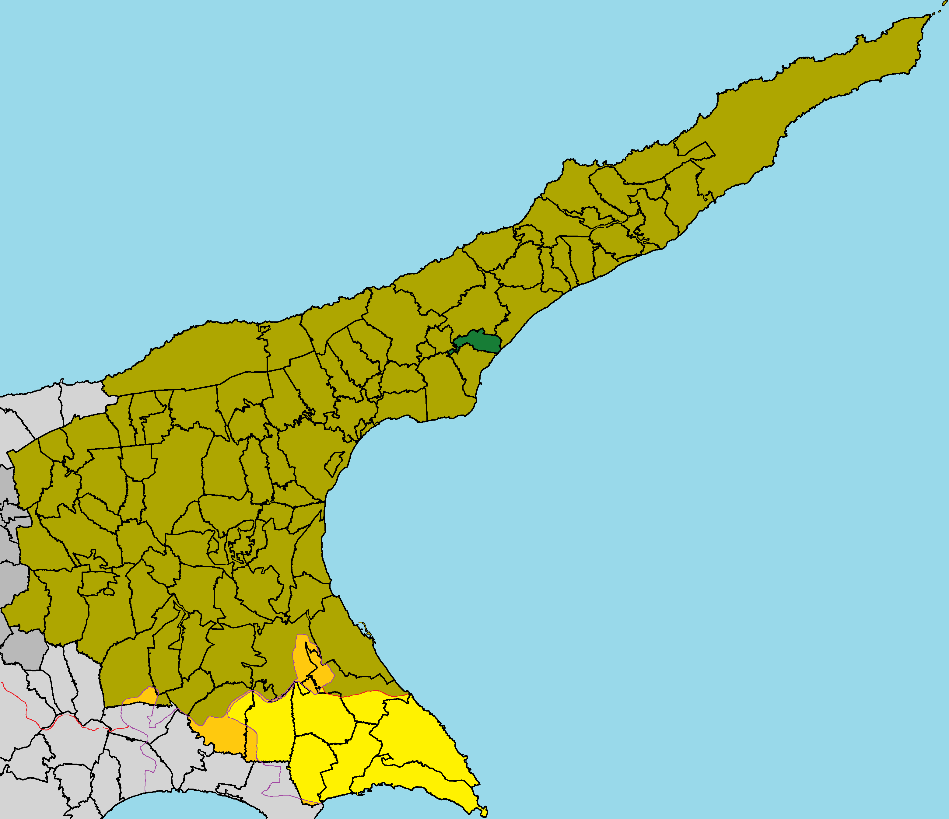 Tavrou in Famagusta District (de jure).